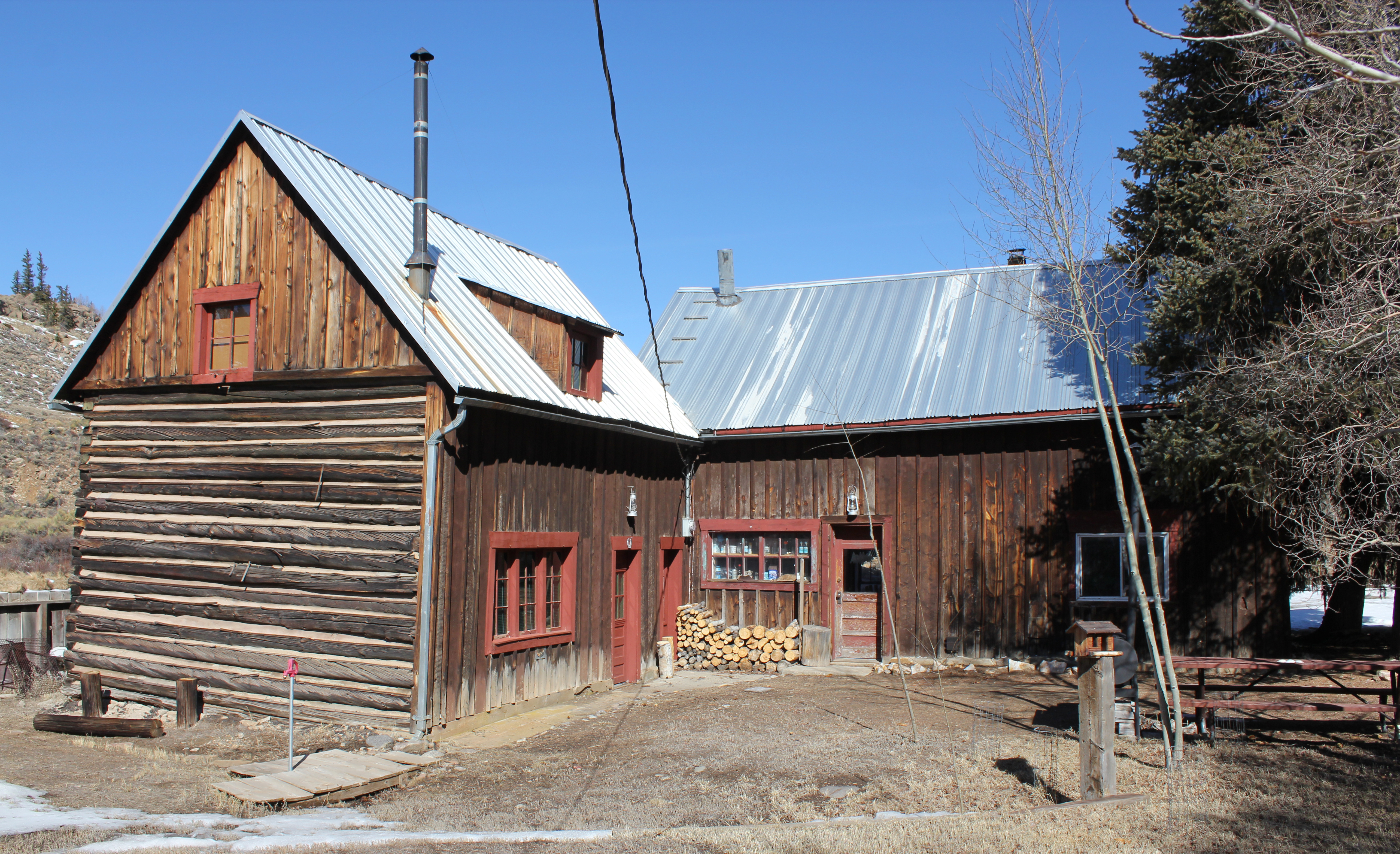 The Commercial Hotel, located at 43255 County Road 397 in Granite Colorado. The property, now a dwelling, is listed on the National Register of Historic Places.